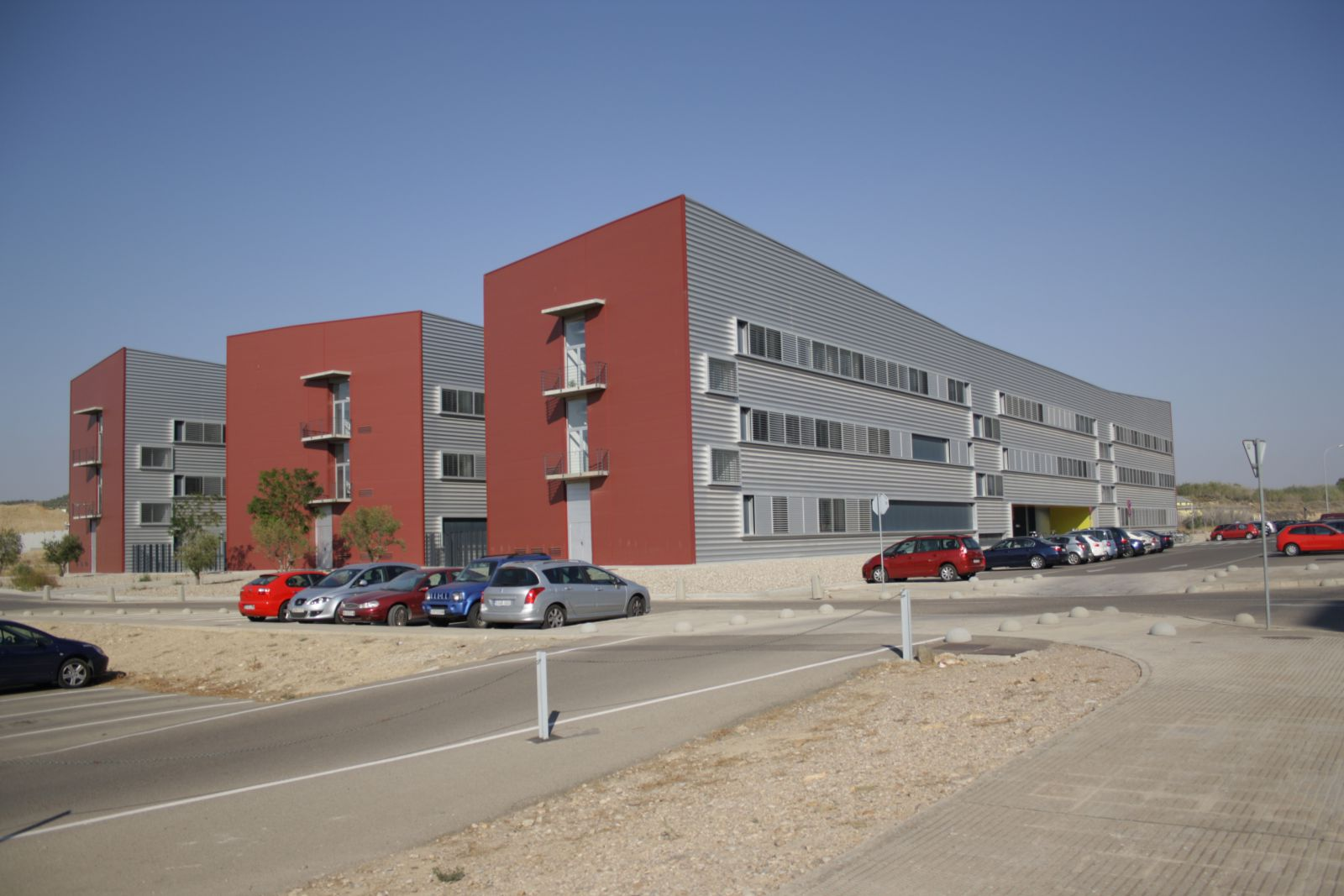 Edificio I+D